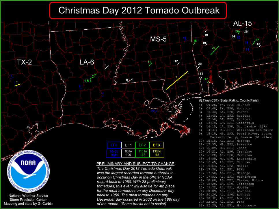 An image depicting the tracks of all confirmed tornadoes from the 2012 Christmas tornado outbreak.